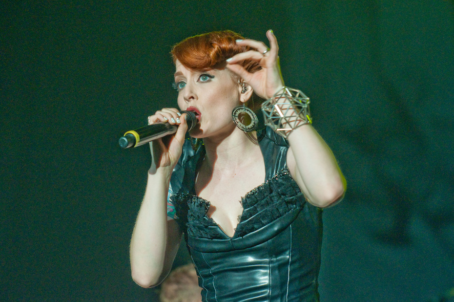 Ana Matronic of Scissor Sisters performing in 2010 at the Fuji Rock Festival, Japan.